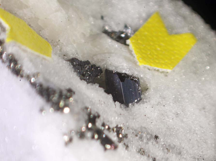 Extremely rare mineral argentobaumhauerite (formerly named as baumhauerite-2a). Analyzed specimen by SEM-EDS, analysis performed by Dr.Topa of the Natural History Museum Wien. From: Lengenbach Quarry, Binntal, Wallis, Switzerland.